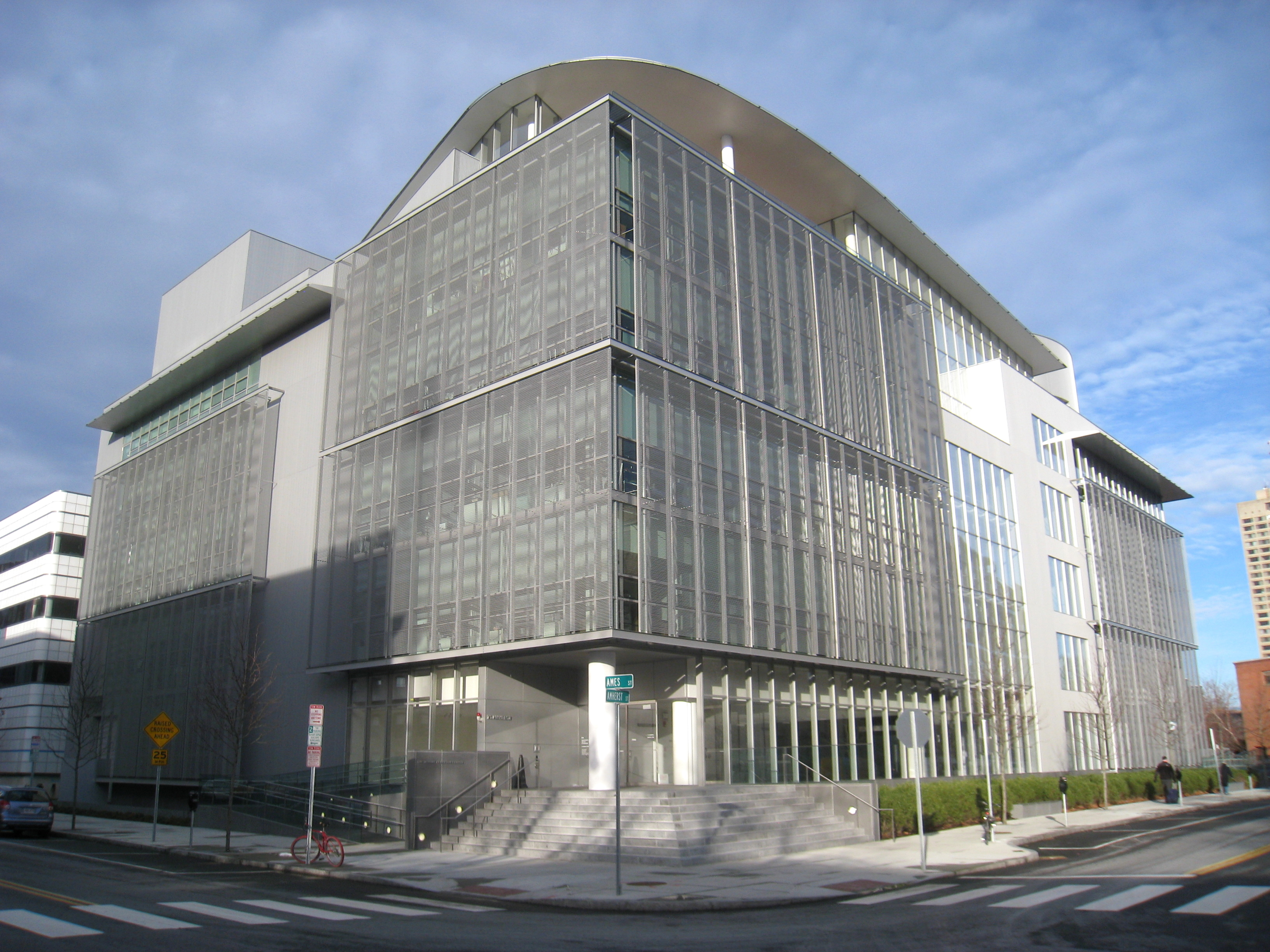 Massachusetts Institute of Technology, Cambridge, Massachusetts, USA. Jerome Lemelson Center.